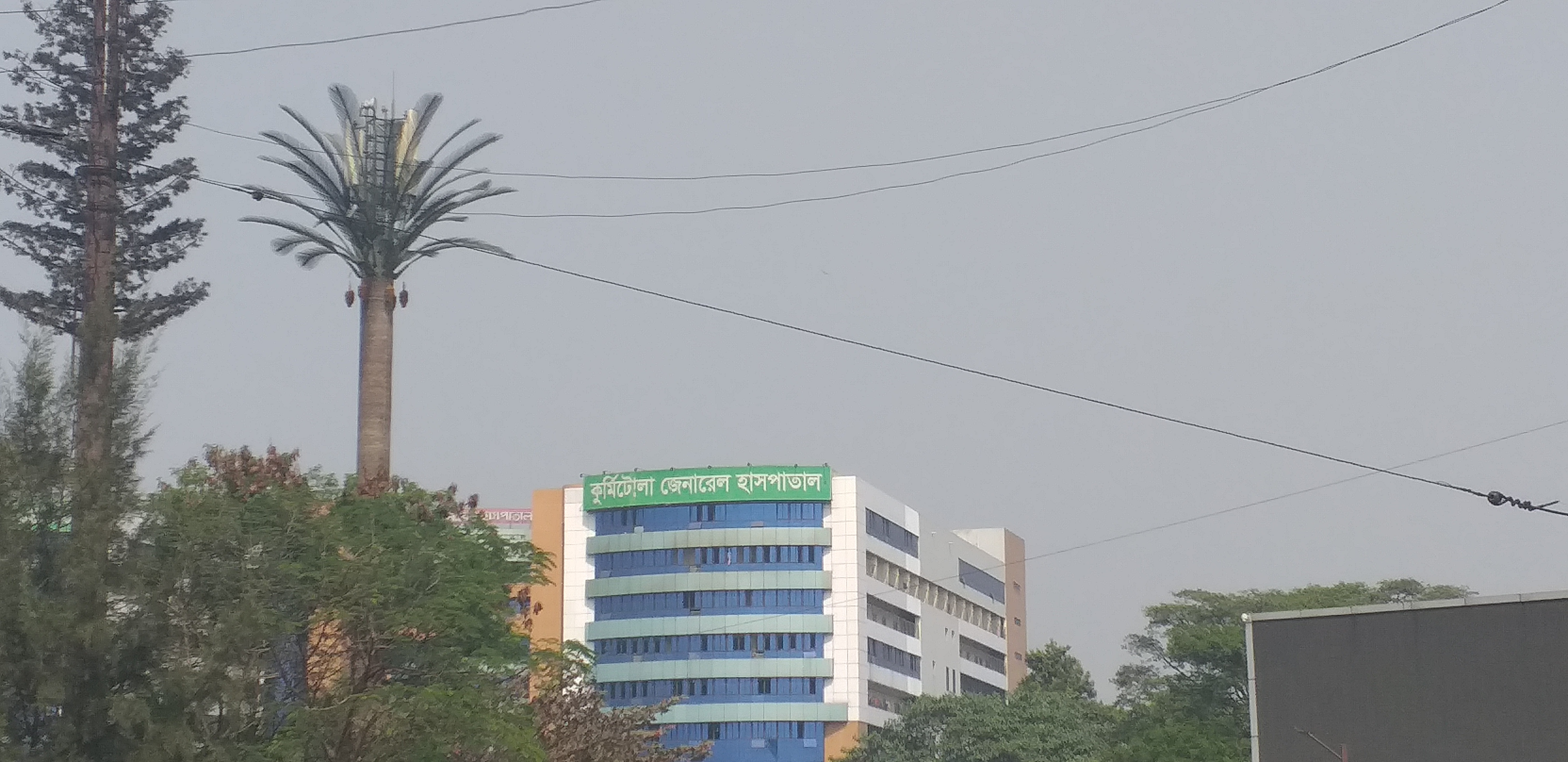 কুর্মিটোলা জেনারেল হাসপাতাল, ঢাকা